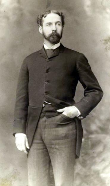 Samuel Franklin Emmons, February 14, 1889.